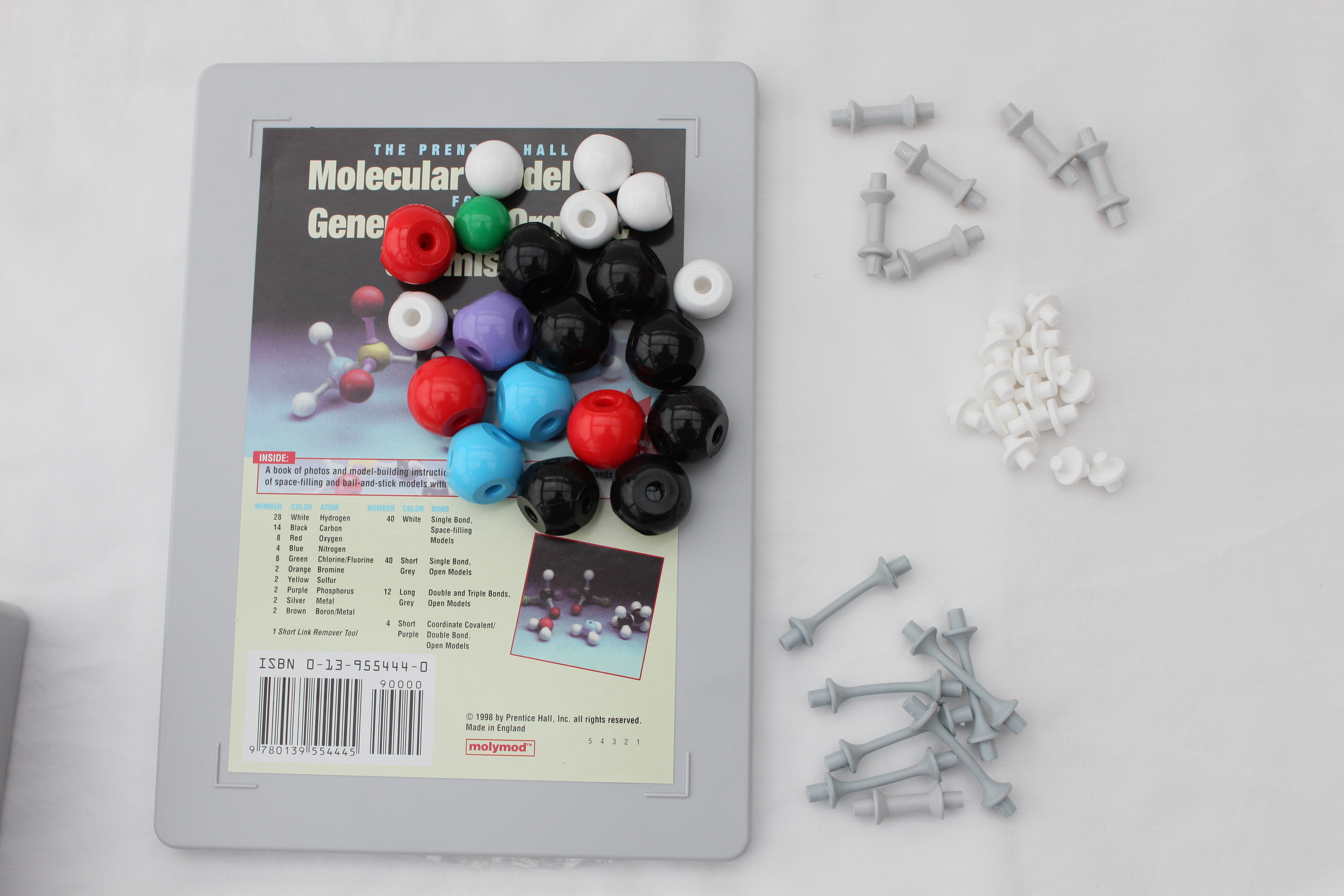 Chemical structures constucted with Prentice Hall Molecular Model Set for General Organic Chemistry